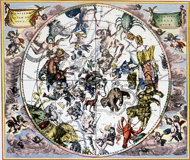 The northern firmament, illustration in "Cellarius Harmonia Macrocosmica", written by Andreas Cellarius, 1660.